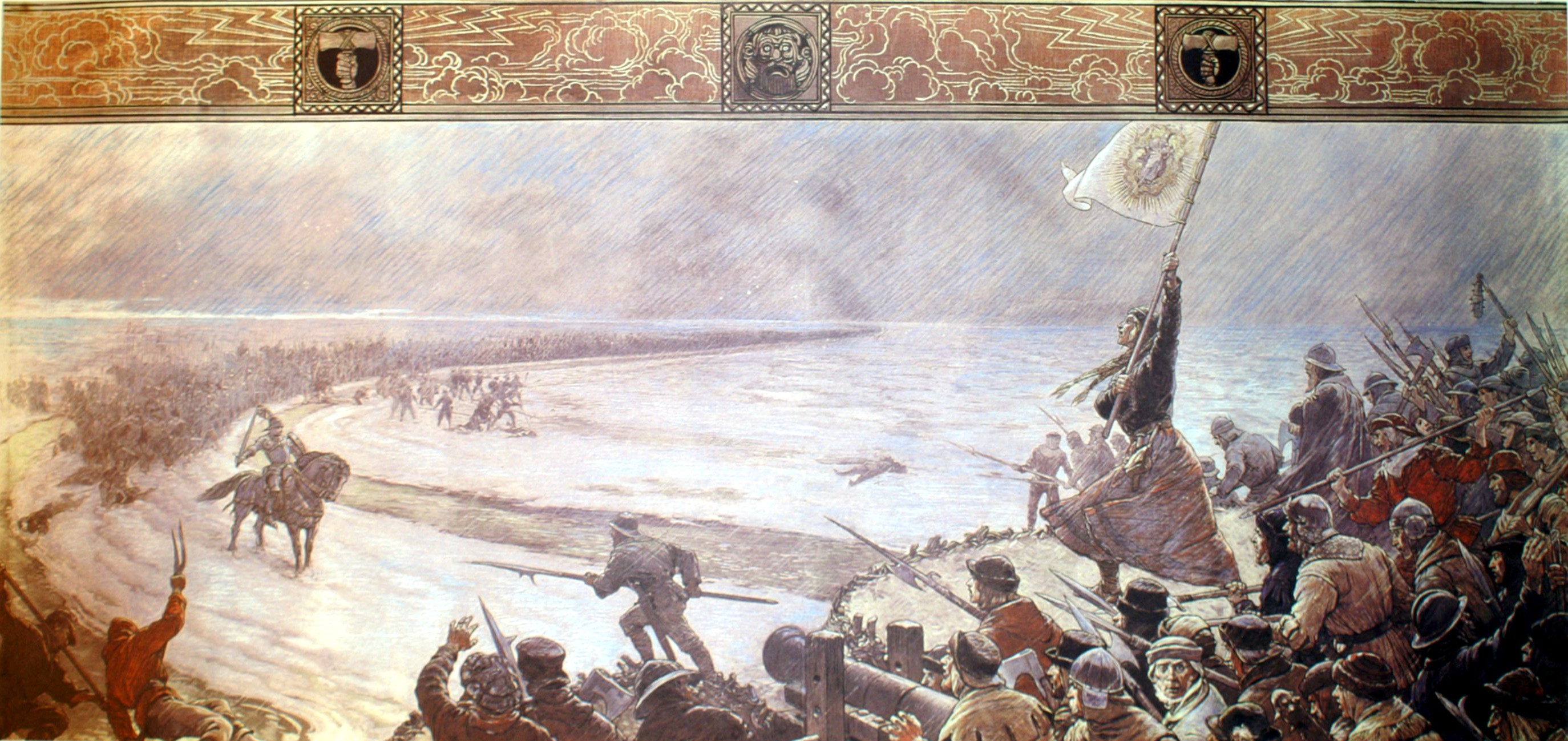 Schlacht bei Hemmingstedt, history wall painting in the assembly hall of the Office Building (Kreishaus) of the former Süderdithmarschen District in Meldorf.